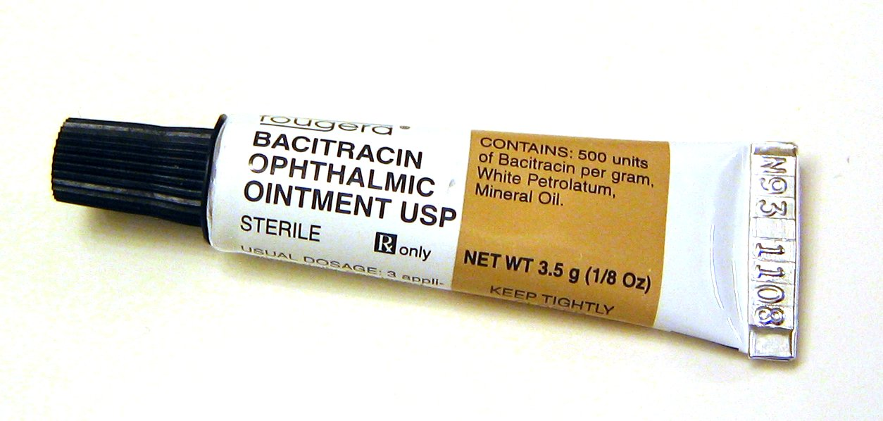 Bacitracin ointment for eyes